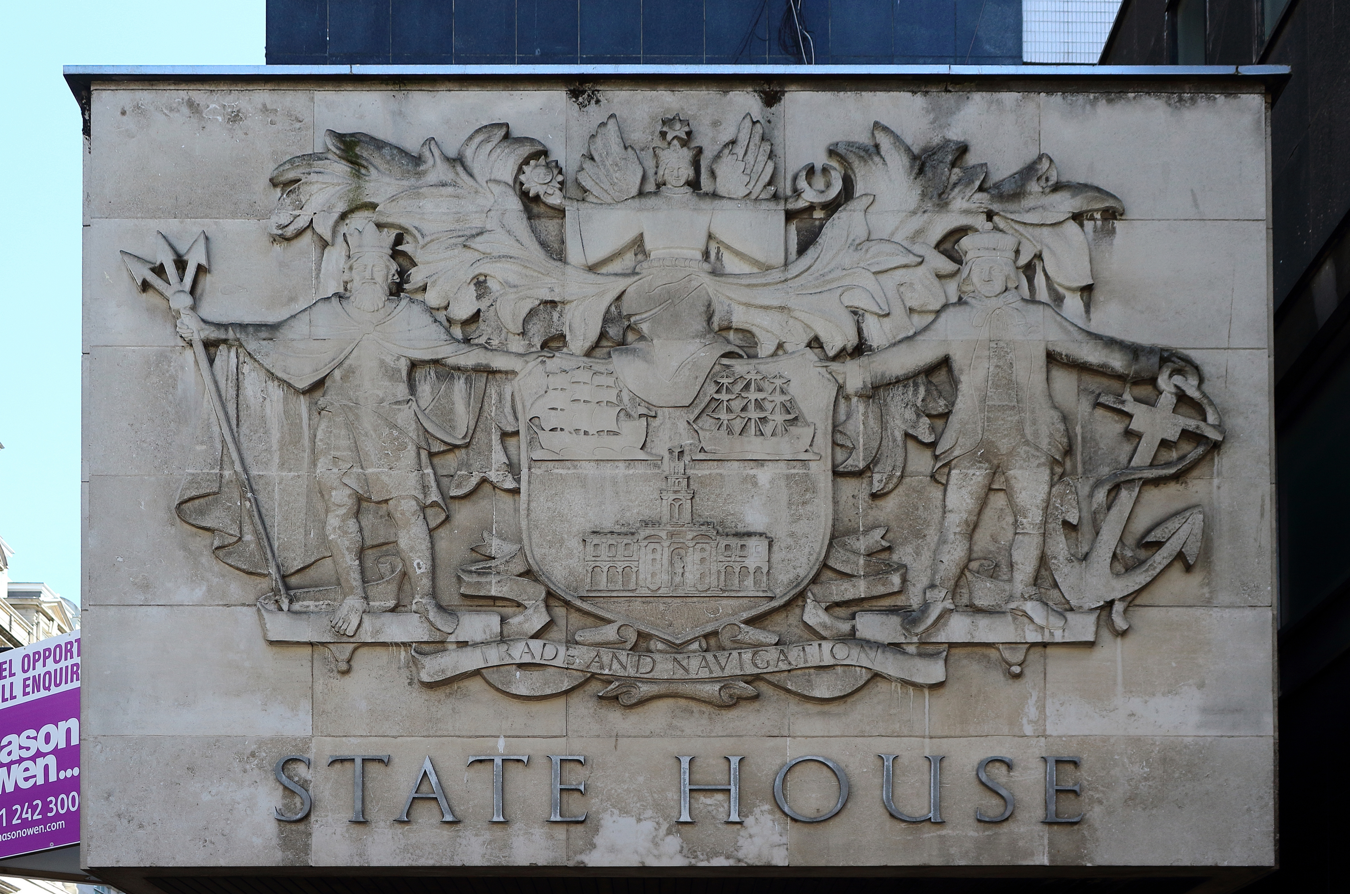 The coat of arms of Royal Exchange Assurance Corporation on the front of State House, Dale Street, Liverpool.